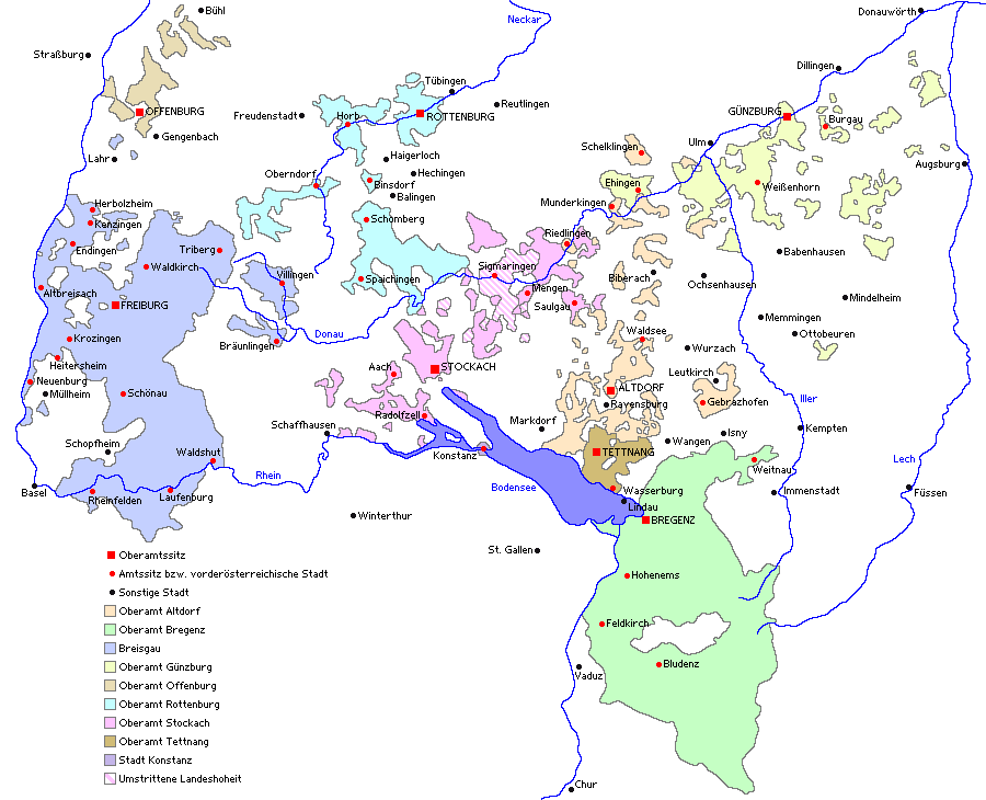 Map of Further Austria in 1780